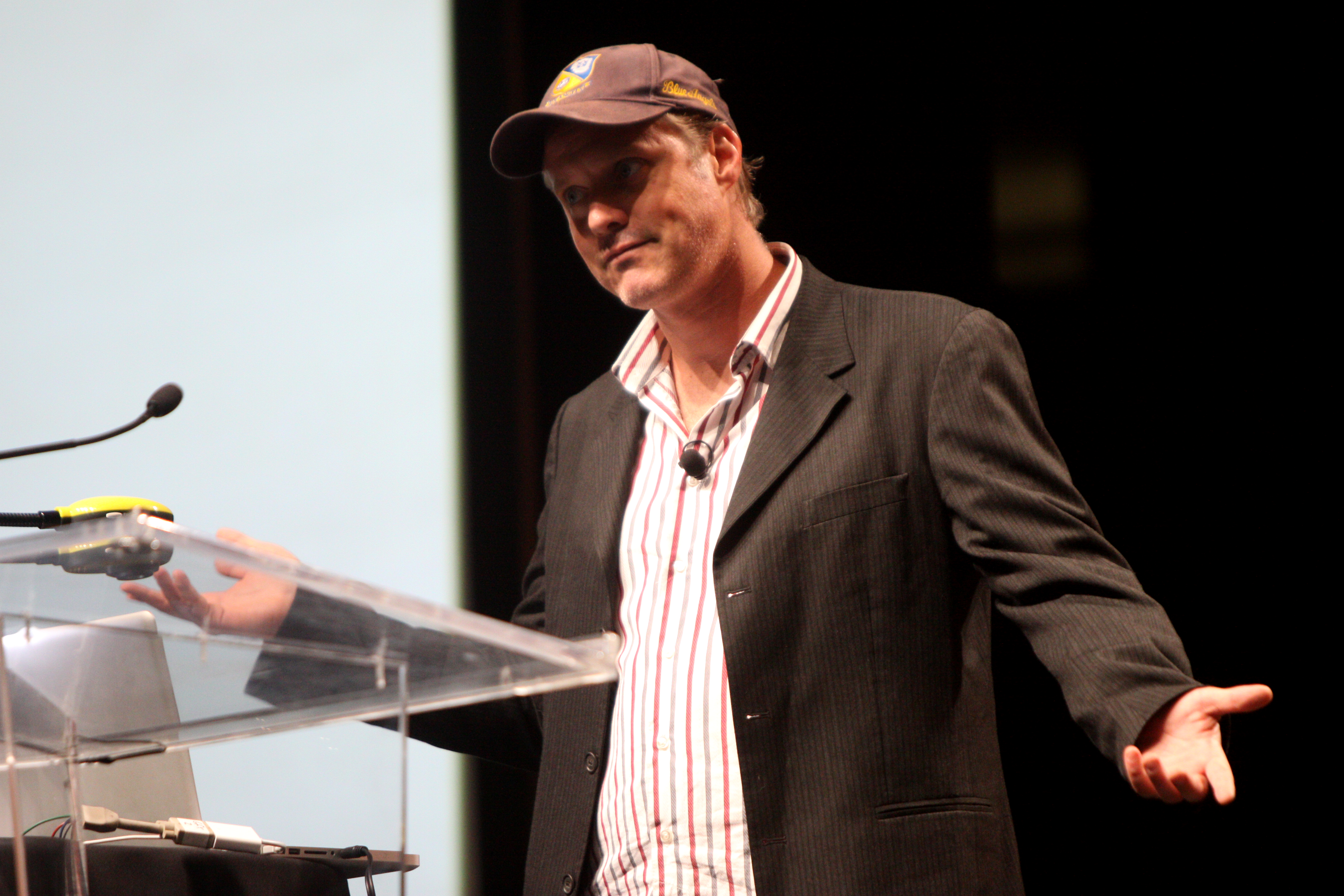 Ze Frank speaking at VidCon 2012 at the Anaheim Convention Center in Anaheim, California.